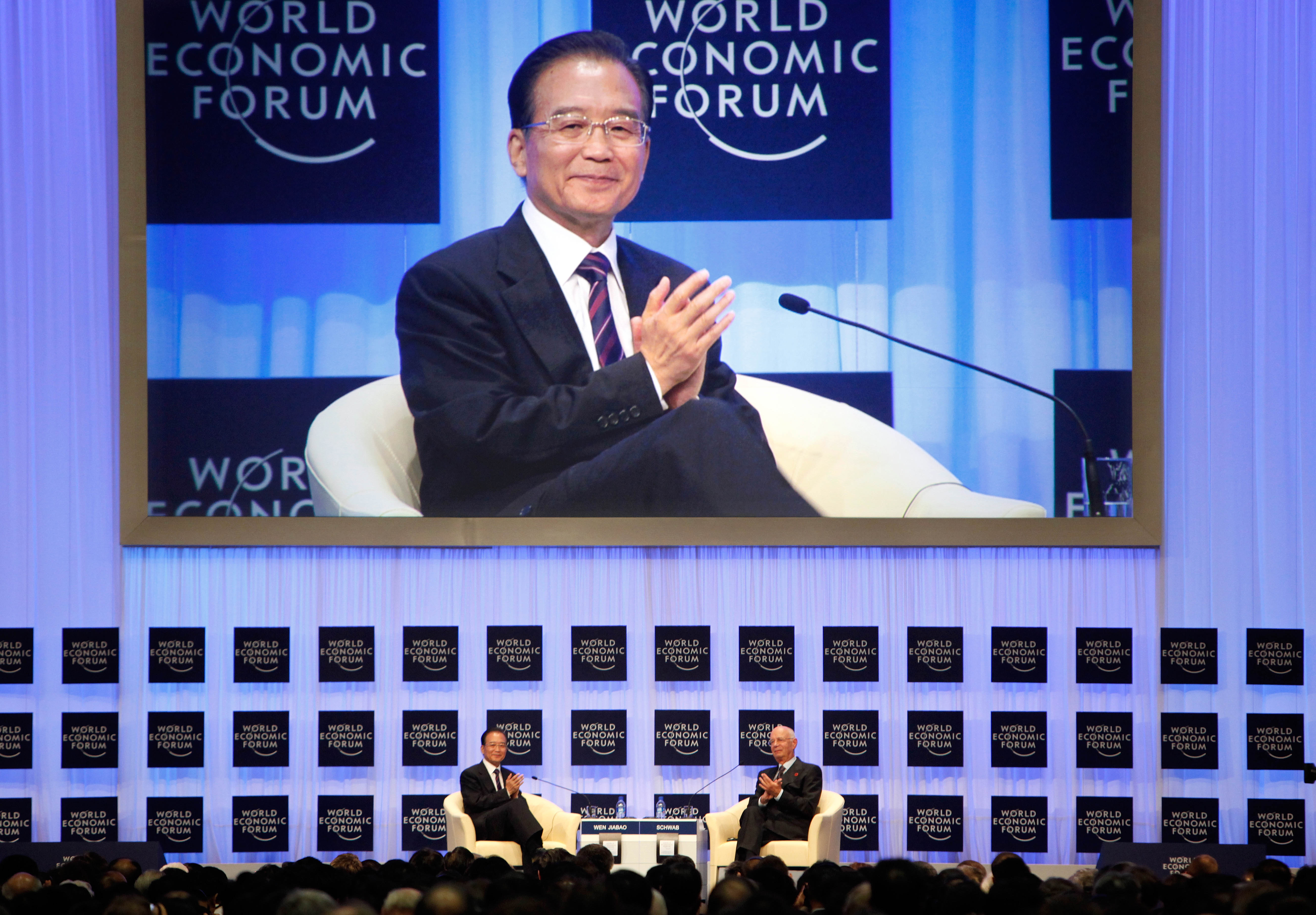 TIANJIN/CHINA 13SEP10 - Wen Jiabao, Premier of the People’s Republic of China and Klaus Schwab, Founder and Executive Chairman, World Economic Forum, speak during the Opening Plenary of the Annual Meeting of the New Champions in Tianjin, China, September 13, 2010. Copyright World Economic Forum /Adam Dean